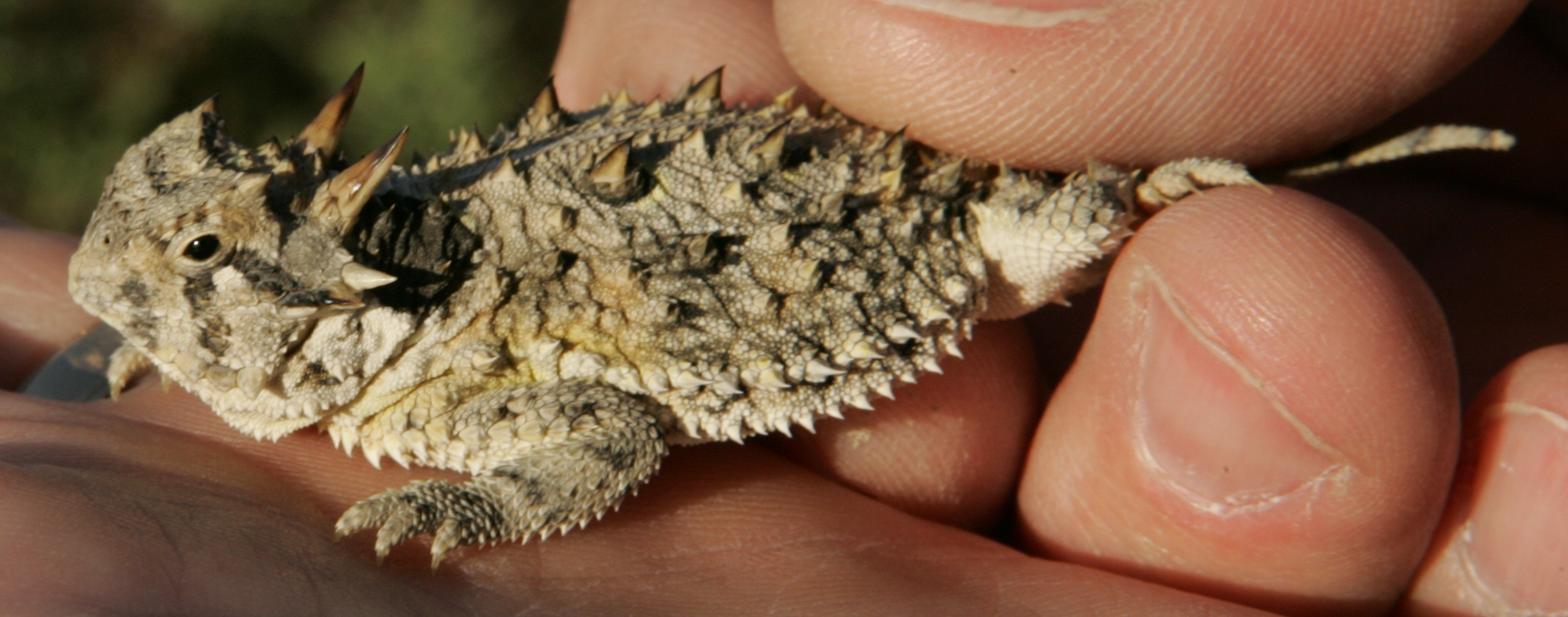 A very small Texas horned lizard ('horned frog') held in palm of hand